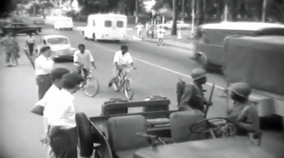 ANC soldiers by their jeep on roadside in Léopoldville as an ambulance passes